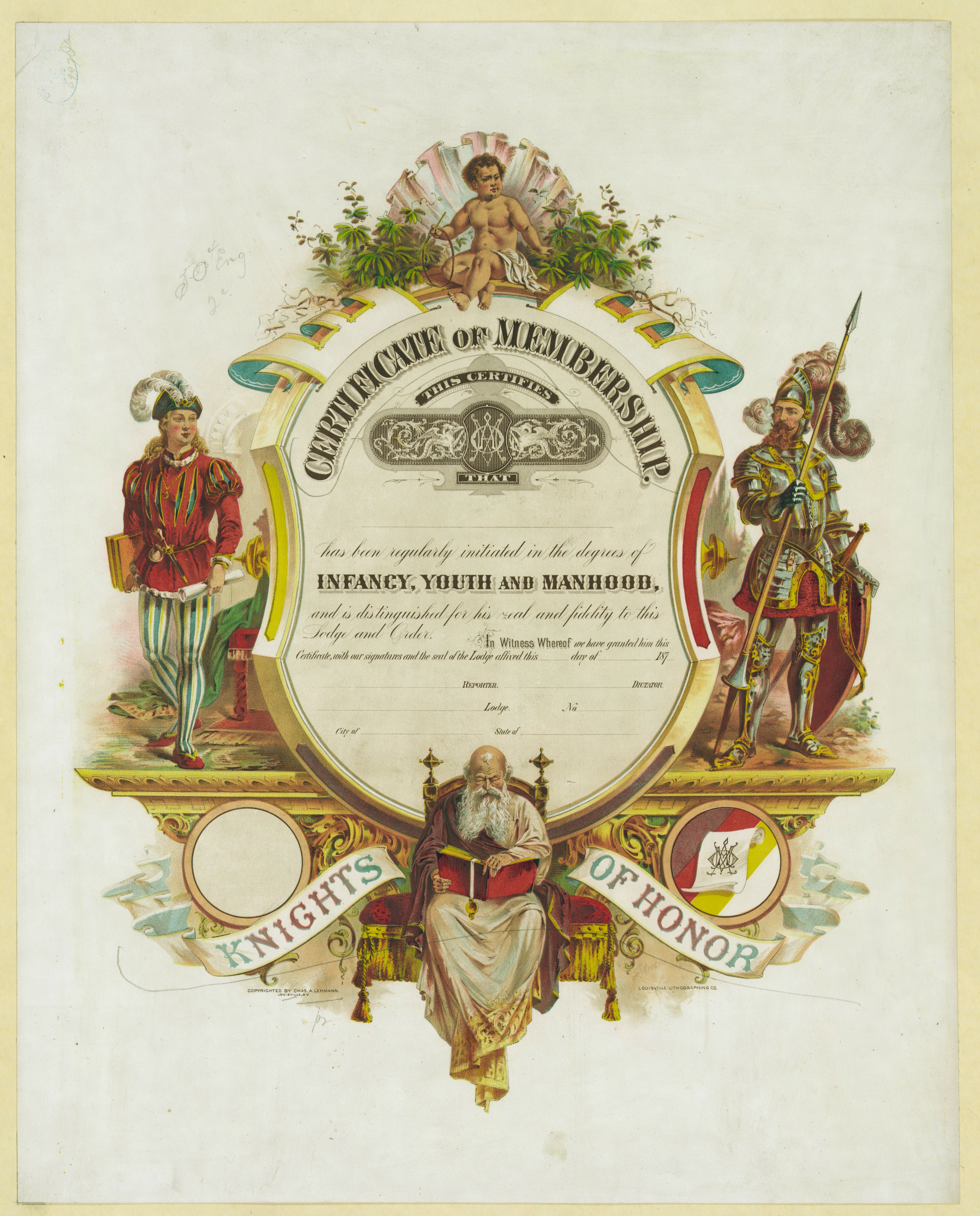 Title: Knights of honor Physical description: 1 print. Notes: This record contains unverified data from PGA shelflist card.; Associated name on shelflist card: Achert.